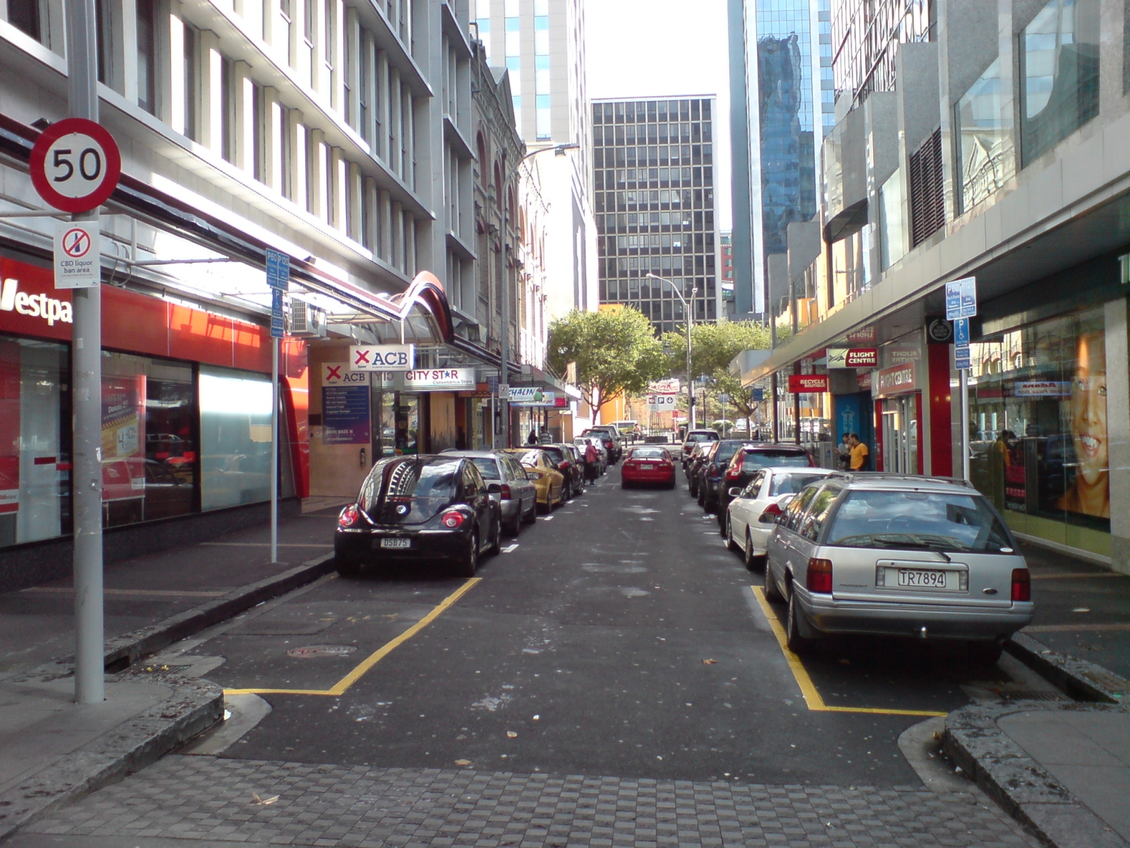 Darby Street in the Auckland CBD, Auckland City, New Zealand. Photo taken some months before the street was being reconstructed into a shared space environment. Looking west from Queen Street.